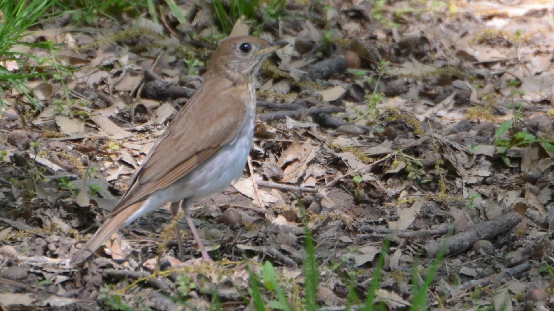 Carondelet Park in St. Louis City on 5/2/13